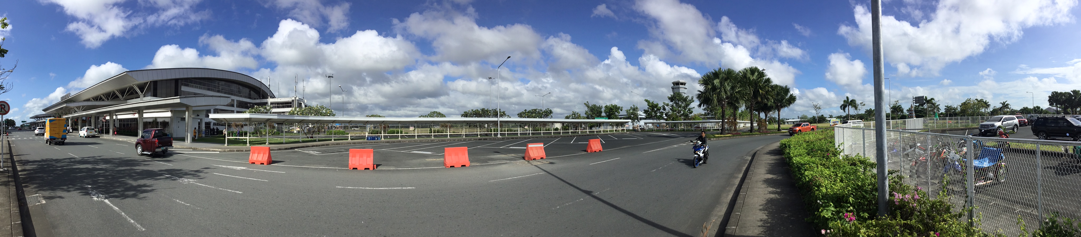 Iloilo International Airport Panorama